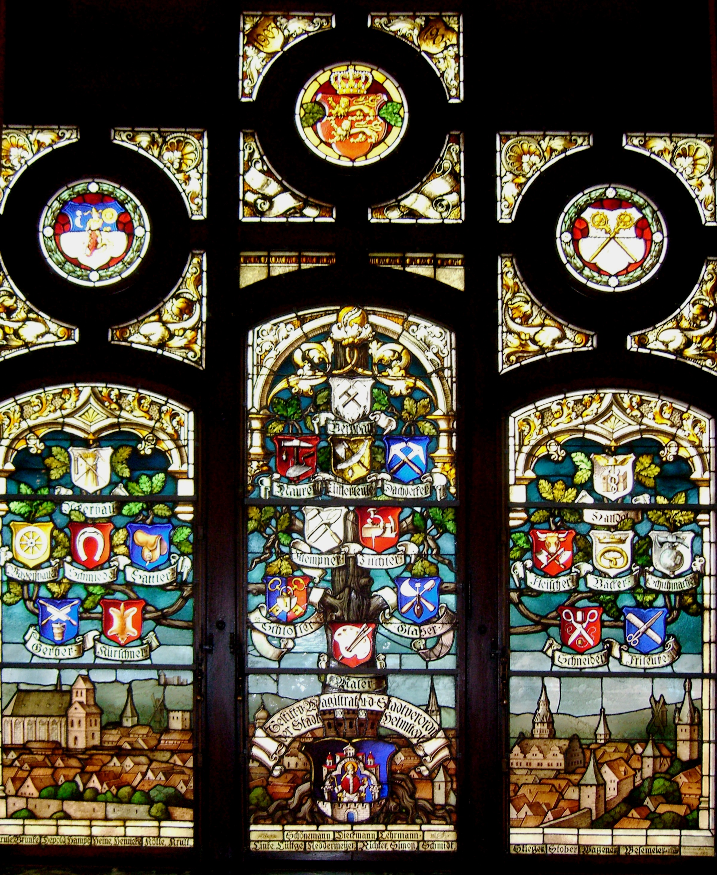 glass painting in the city hall of Helmstedt